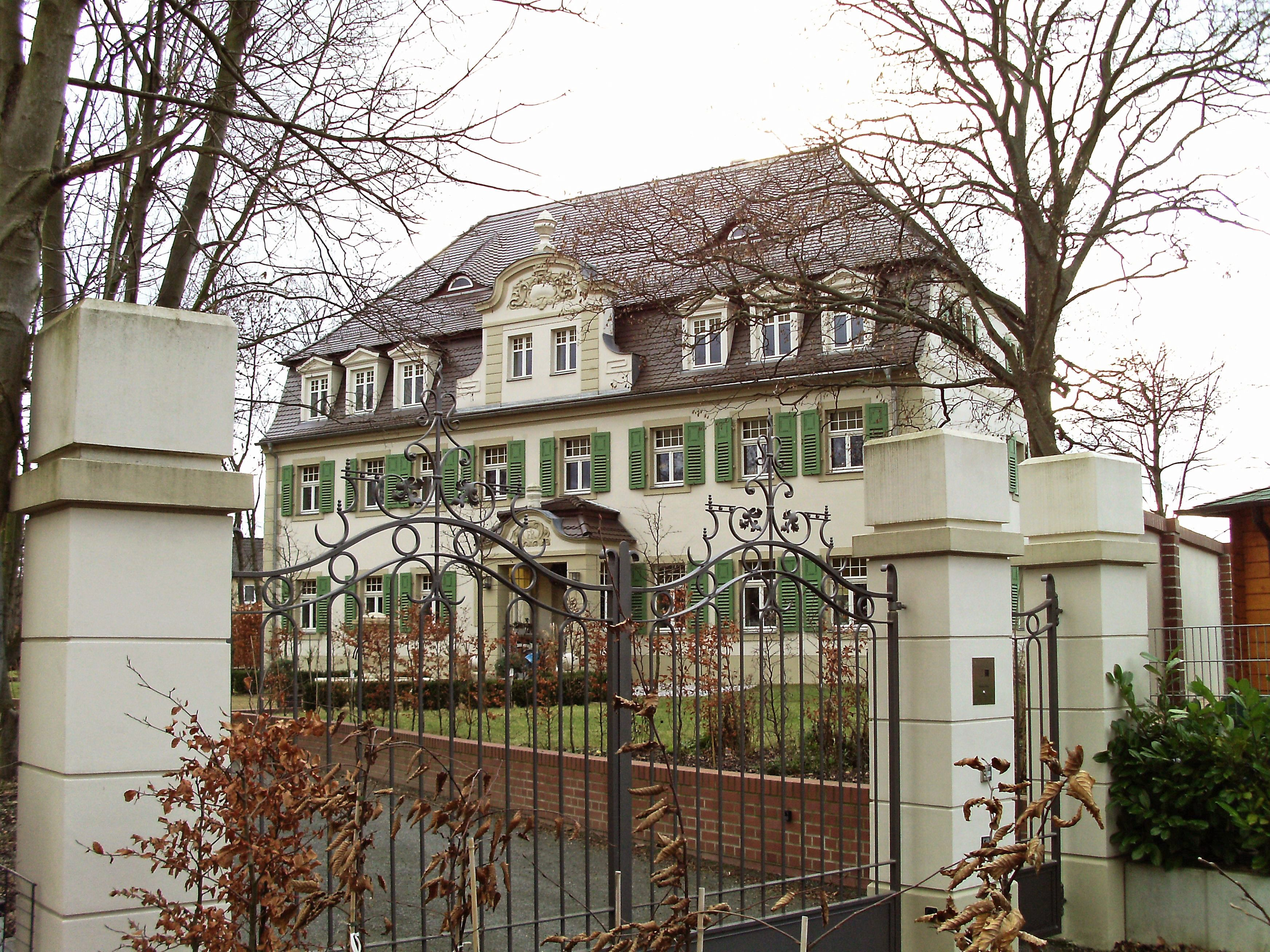 Barneck manor house (Böhlitz-Ehrenberg, Leipzig, Saxony)